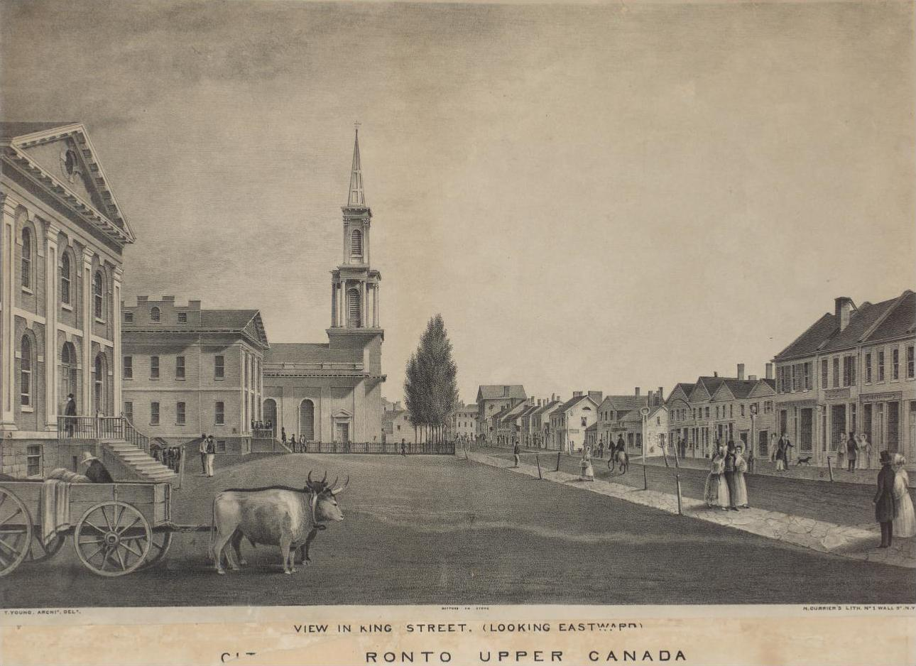 View of King Street, Toronto's main thoroughfare during much of the nineteenth century, looking east from Toronto Street. This stretch of King Street was an early focal point of Toronto, as it contained many of the main shops, the old jail (1827-1840), the courthouse (1827-1855) and St. James Anglican Church (1833-1849). Market/City Hall was further east, at King and Nelson (Jarvis) Streets. Thomas Young, the artist, was a well-known Toronto architect.